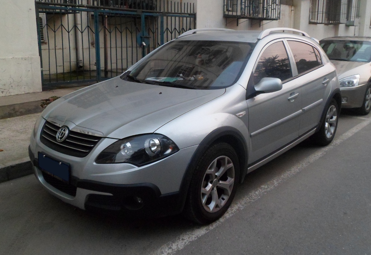 Brilliance Junjie Cross photographed in Beijing, China.